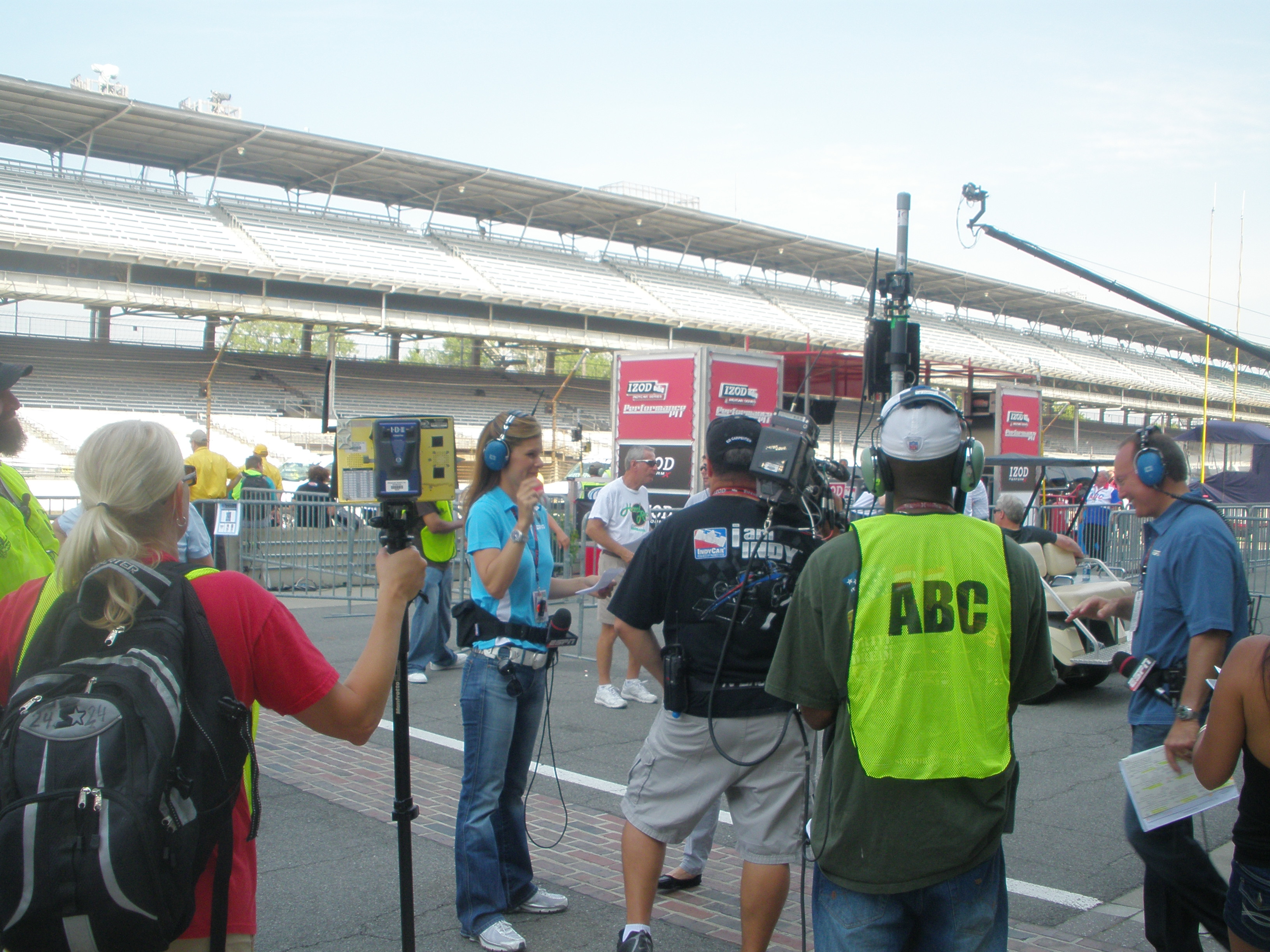 ABC TV reporters at the 2010 Indianapolis 500